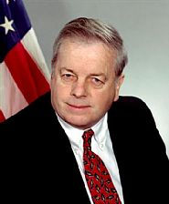 Commissioner Joseph E. Brennan of the Federal Maritime Commission